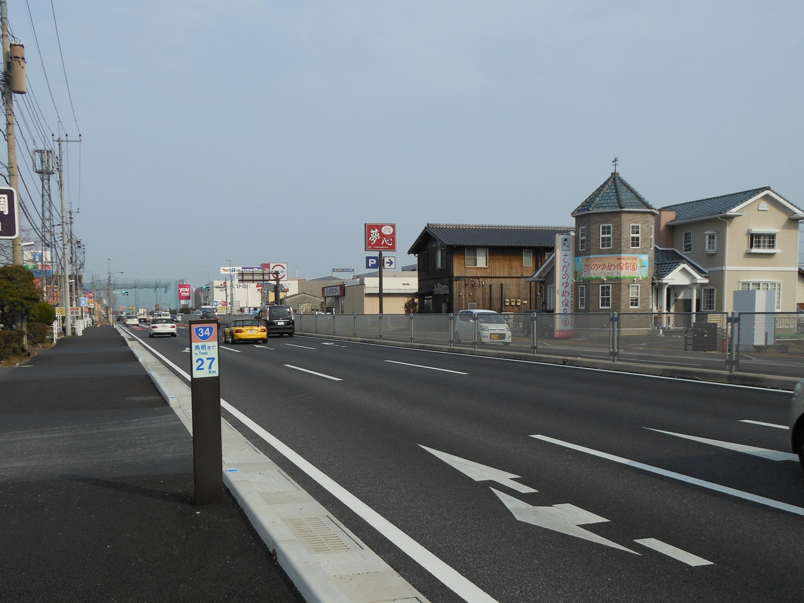 "Hokubu bypass" street in Hyogo-kita, Saga City. It is part of route 34.